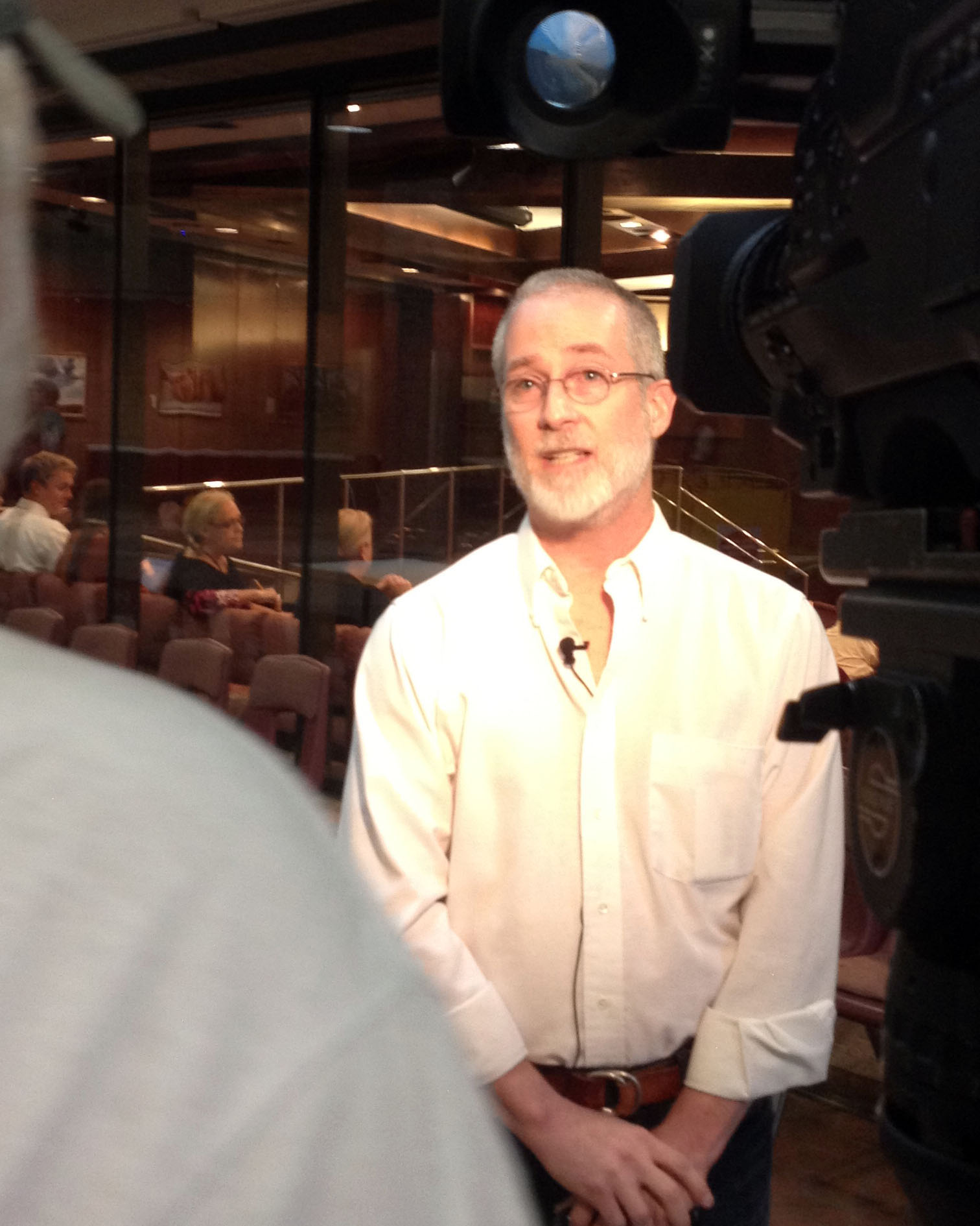 David Nelson speaks with a television-news reporter on Sept. 25, 2012 in Salt Lake City at the Salt Lake County Government Center Council Chambers. For use at WP: David Nelson (Utah activist)